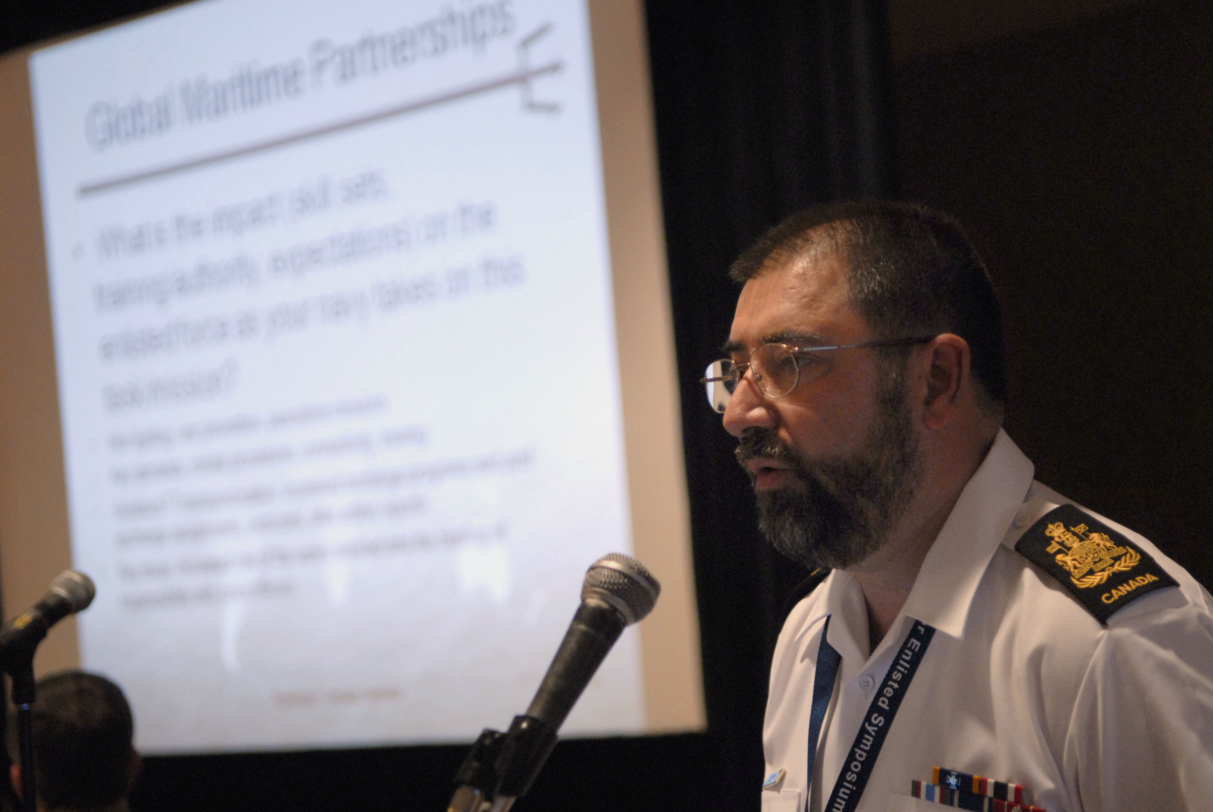 HONOLULU (Sept. 23, 2008) Canadian Navy Chief Petty Officer 1st Class Robert Cleroux gives a presentation during the second Global Maritime Senior Enlisted Sailor Symposium. The symposium, hosted by Master Chief Petty Officer of the Navy (MCPON) Joe R. Campa Jr. and Master Chief Petty Officer of the Coast Guard Skip Bowen, will focus on enlisted development and international cooperation. Senior enlisted leaders representing forty nations are in Honolulu for the symposium. (U.S. Navy photo by Mass Communication Specialist 1st Class Jennifer A. Villalovos/Released)